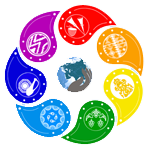 The First International Handicrafters Festival logo